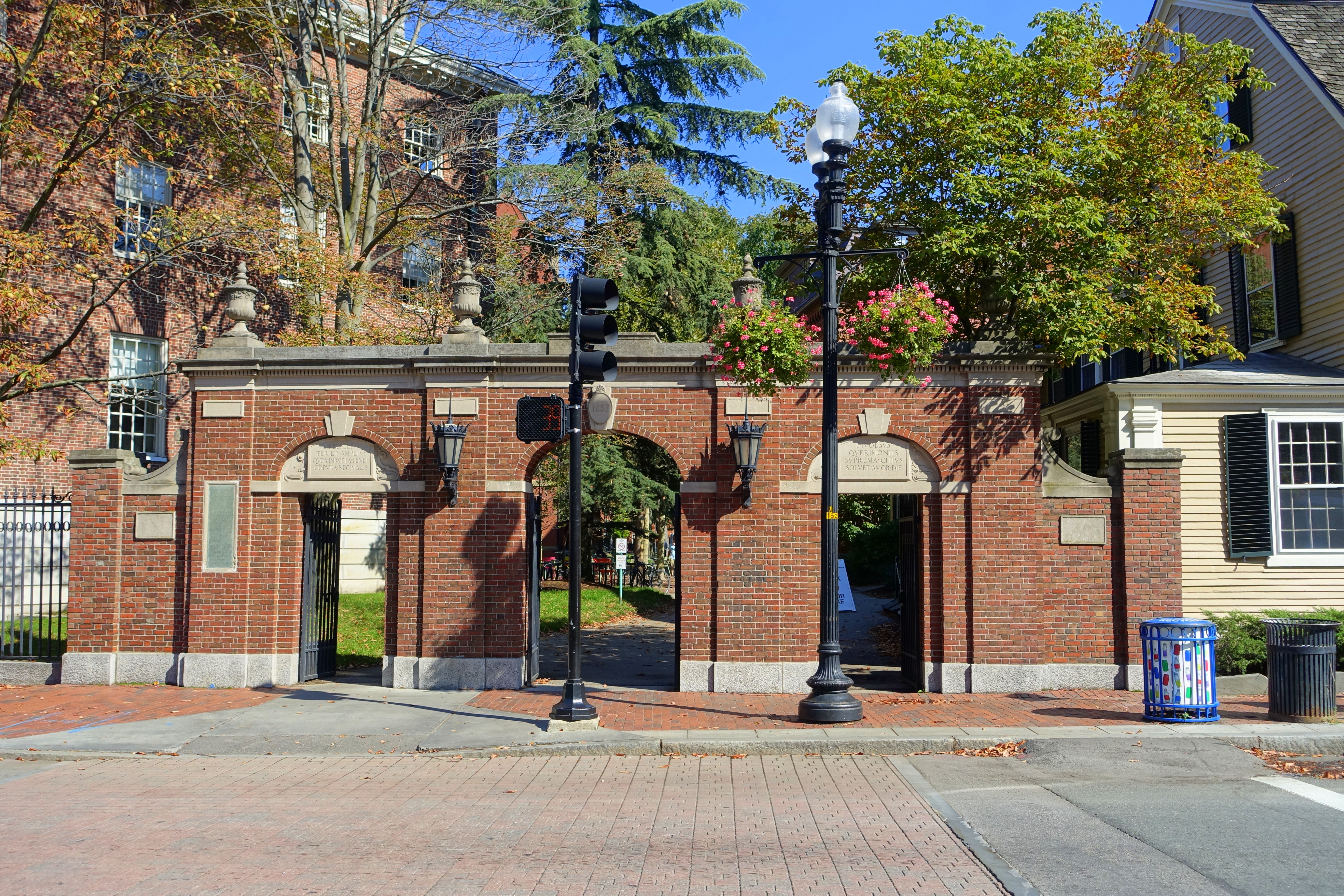 1857 Gate - Harvard Yard - Cambridge, Massachusetts, USA.